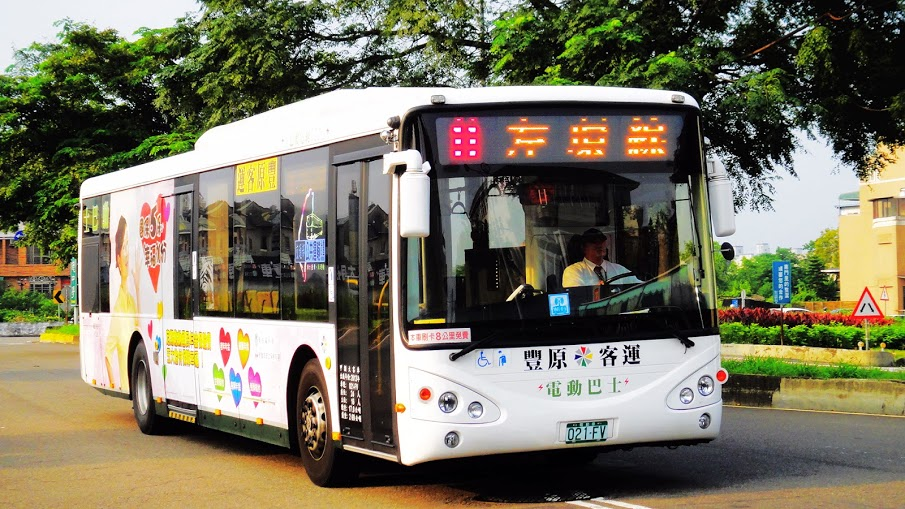 豐原客運 SUNWIN電動公車 021-FV